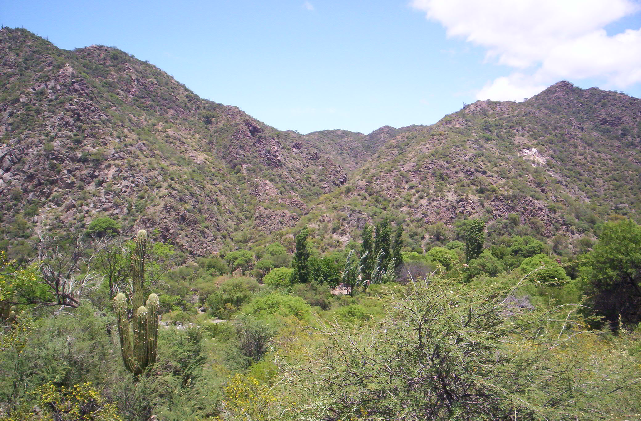 Overlooking the mountains of Valle Fértil in the town of Chucuma in the Valle Fértil department, San Juan province of Argentina